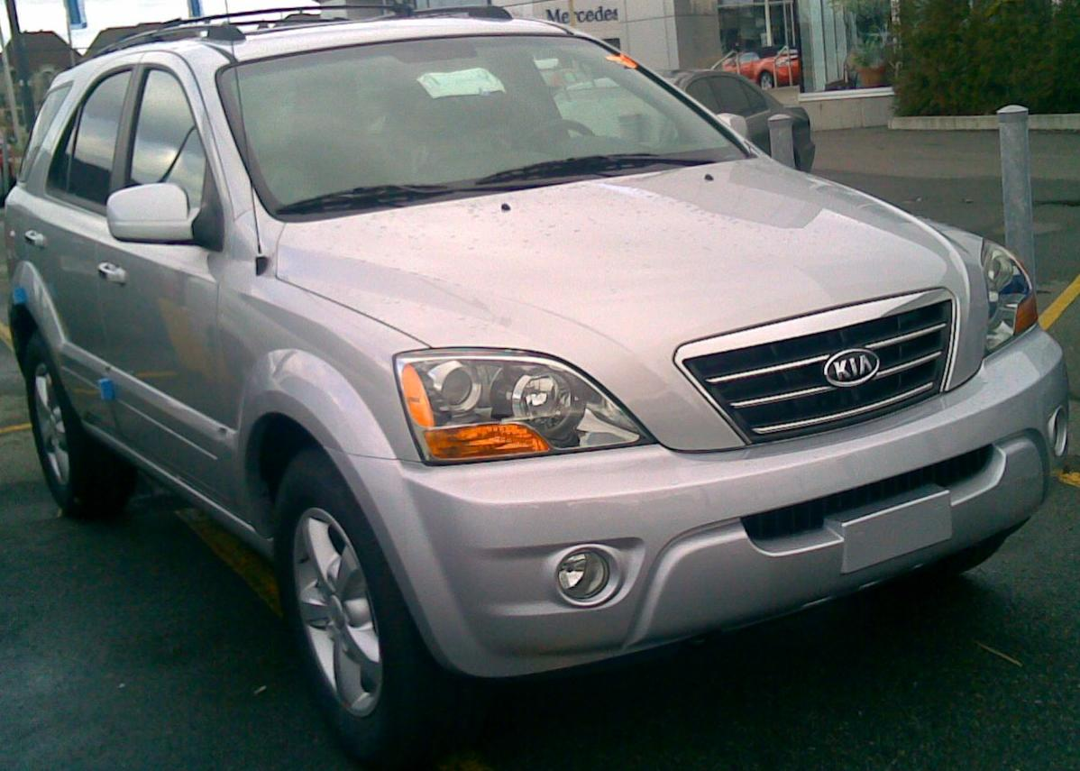 2007 Kia Sorento photographed in Montreal, Quebec, Canada.